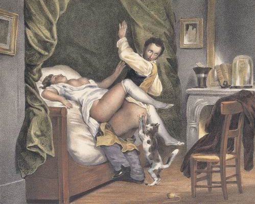 The Jealous Cat